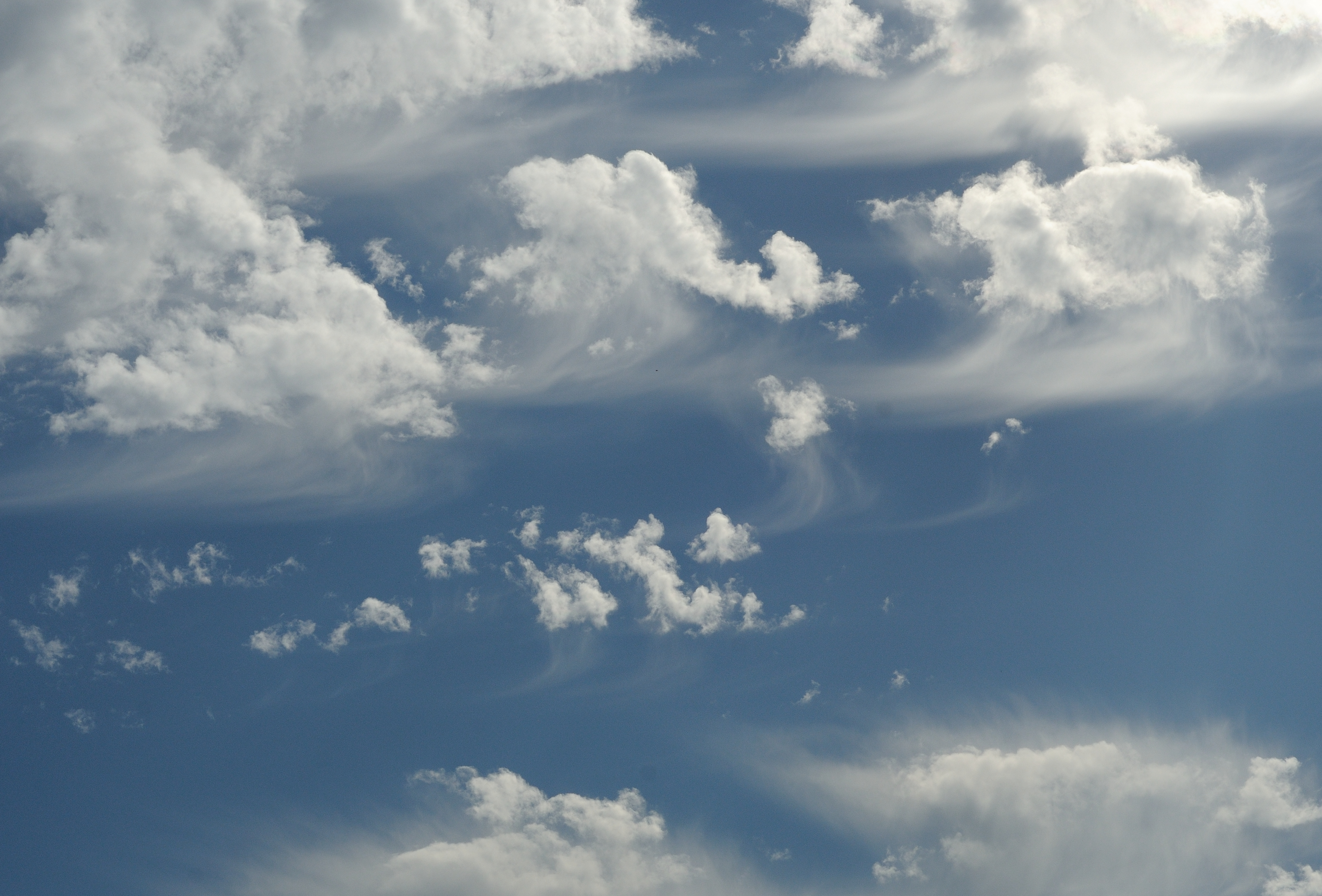 Cirrus (curl of hair) floccus (flaked or puffy) with virga